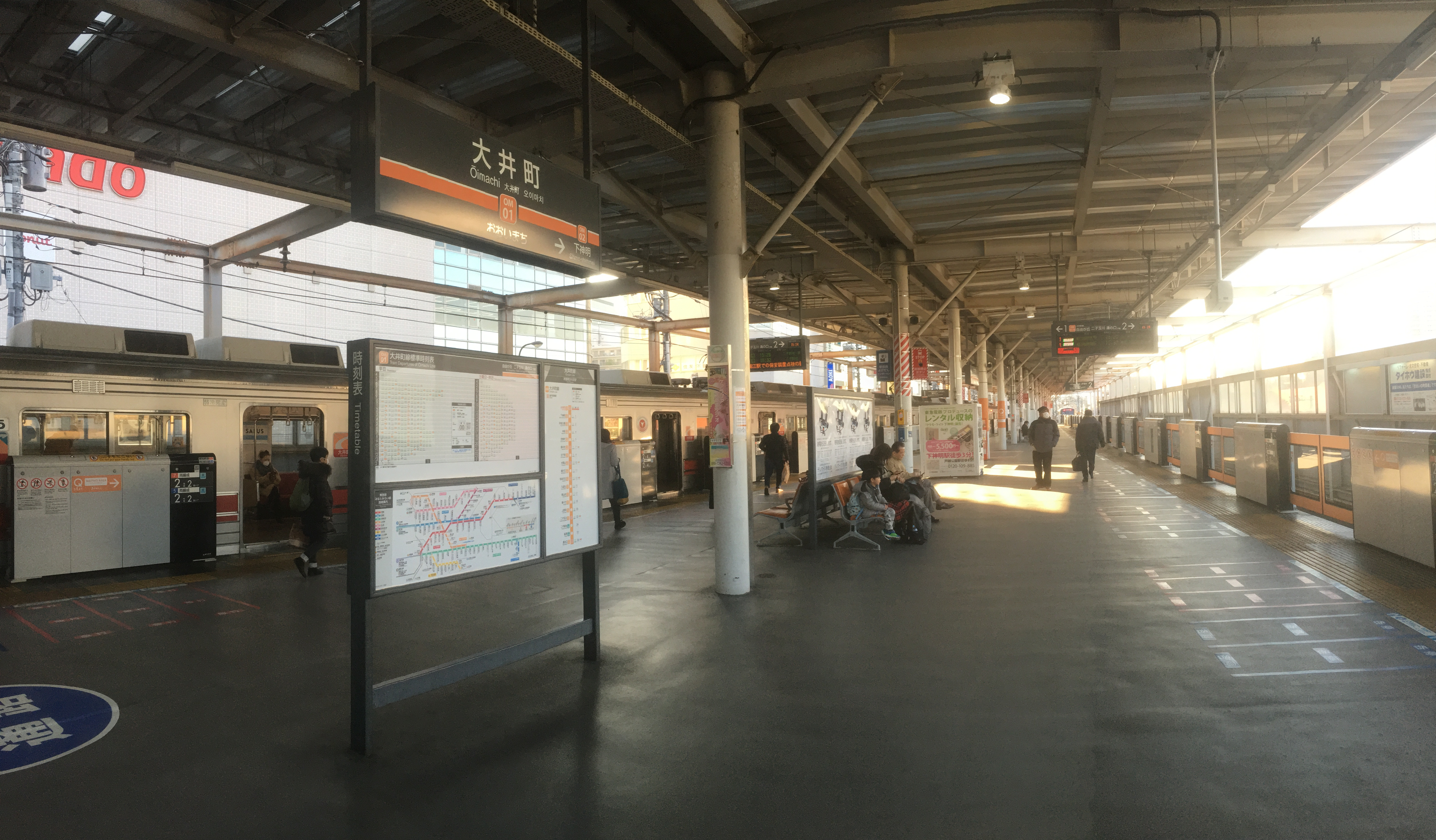 Ōimachi Station platforms (大井町駅のホーム)